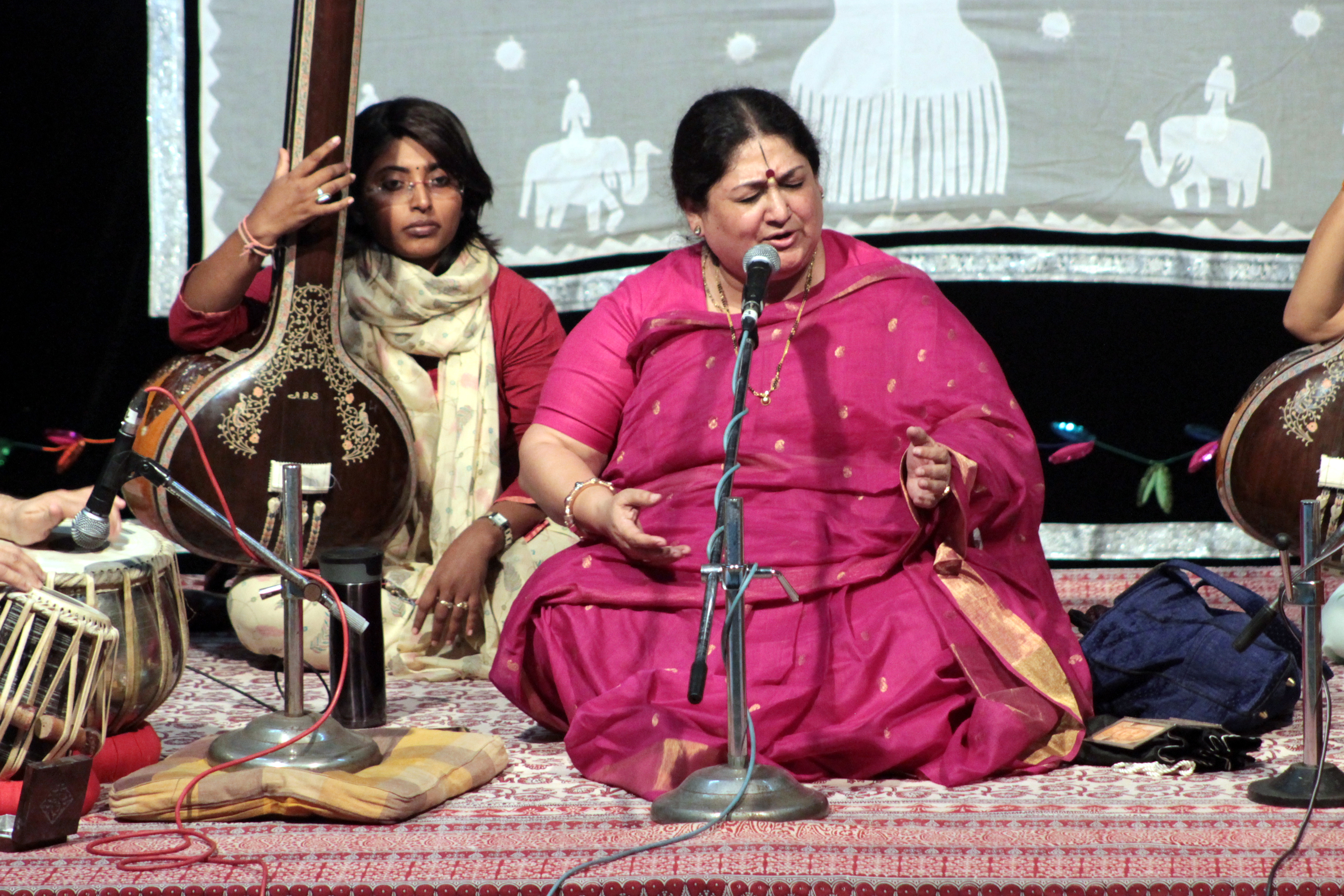 Shubha_Mudgal Reforming at Bharat_Bhavan Bhopal July 2015 in Uttar Pradesh Mahotsav